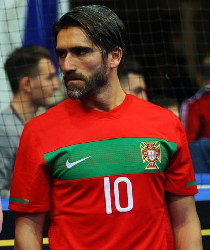 Pedro Mendes